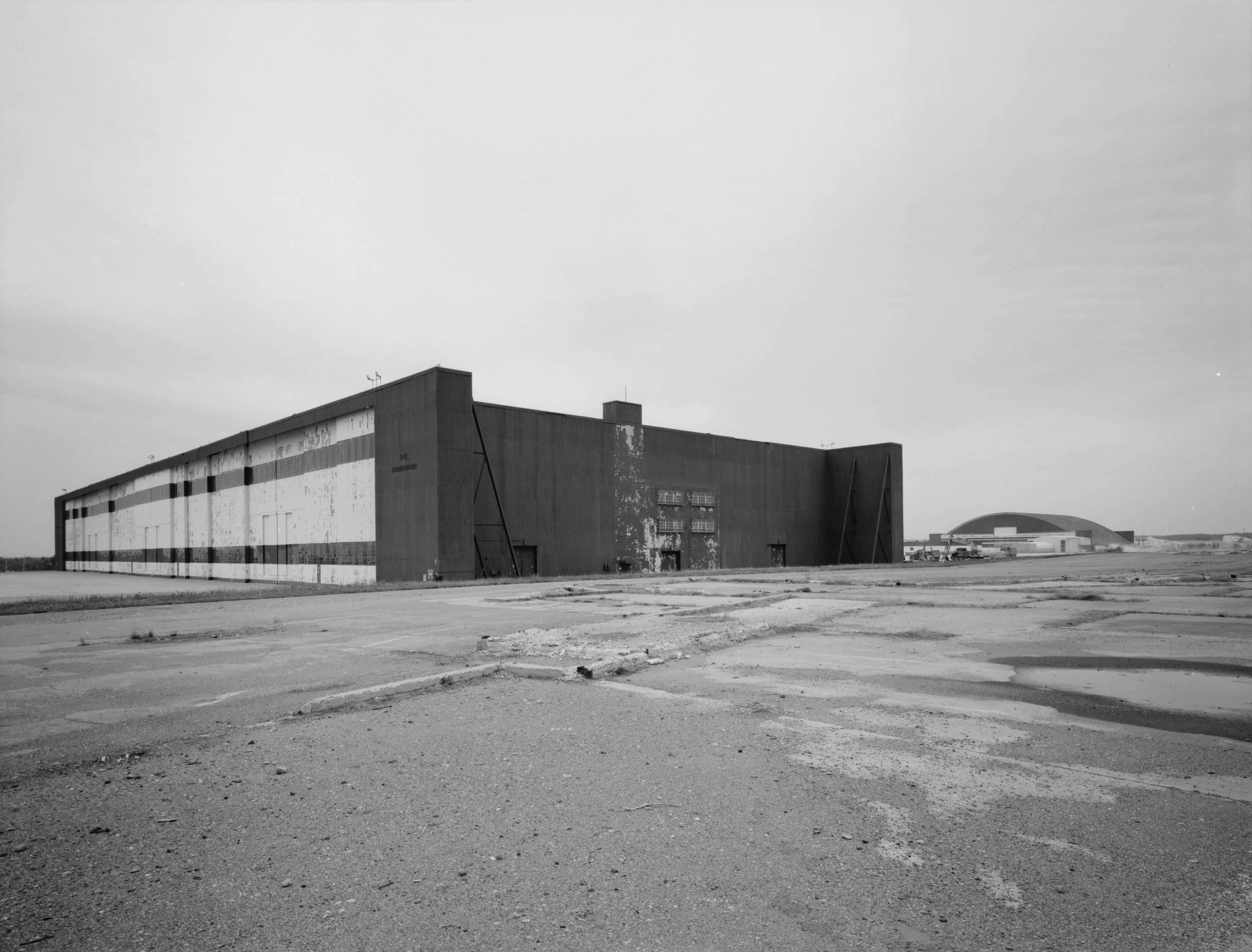 Loring Air Force Base, Aroostook County, ME. Looking Nortwest with building 8250 (Arch Hangar) in Background